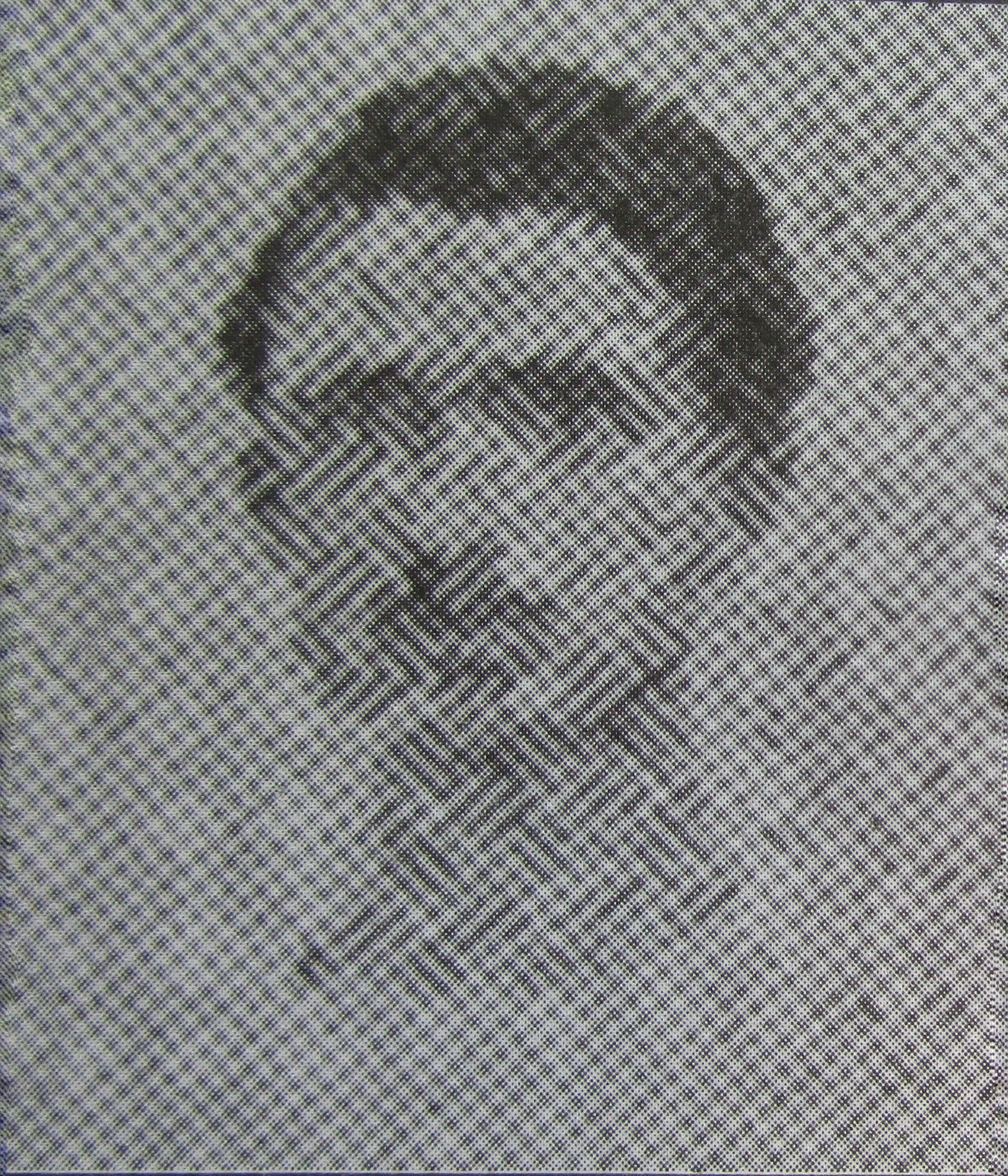 Mohitamohan Moitra